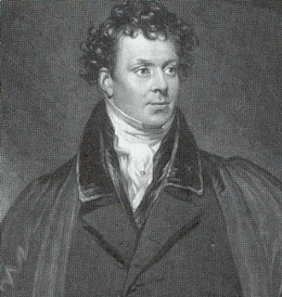 Painting of Joshua King (1798-1857), Lucasian Professor of Mathematics, President of Queens College